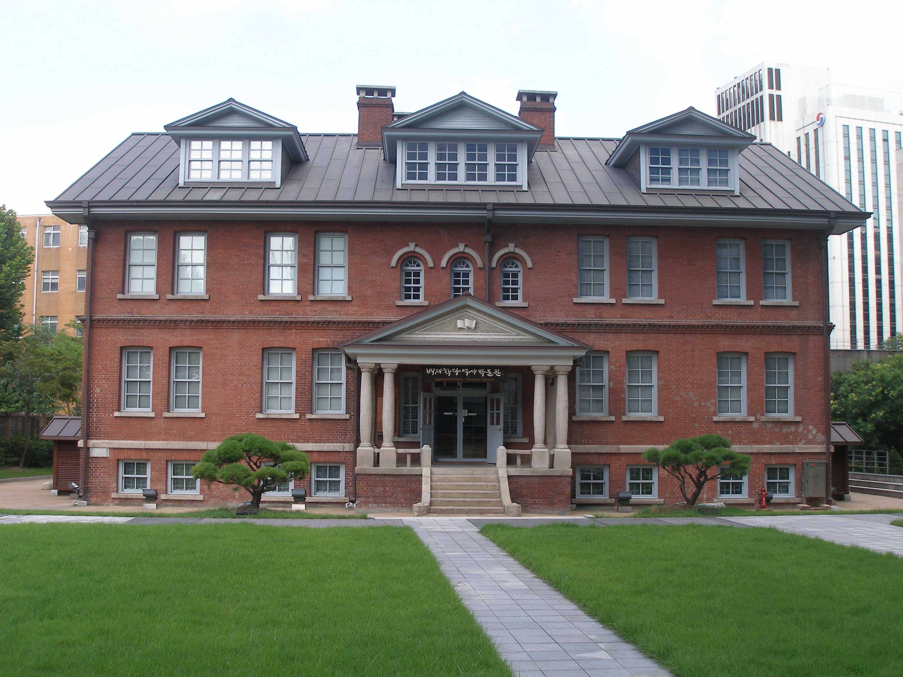 East hall of Pai Chai school, first modern high school in Korea